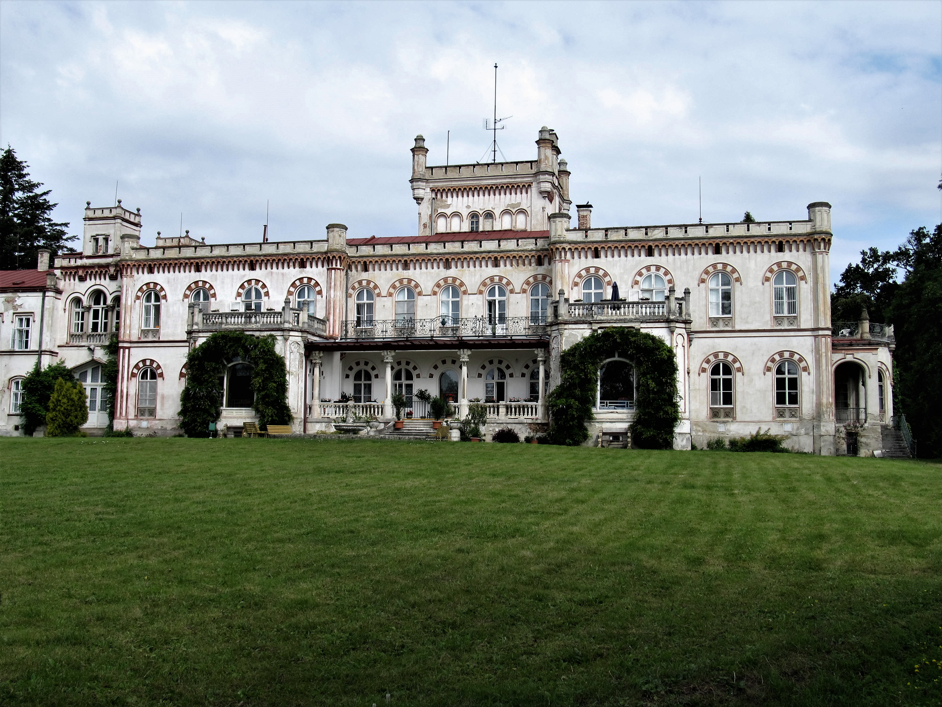 Jevišovice, Znojmo District, Czechia. New Castle.